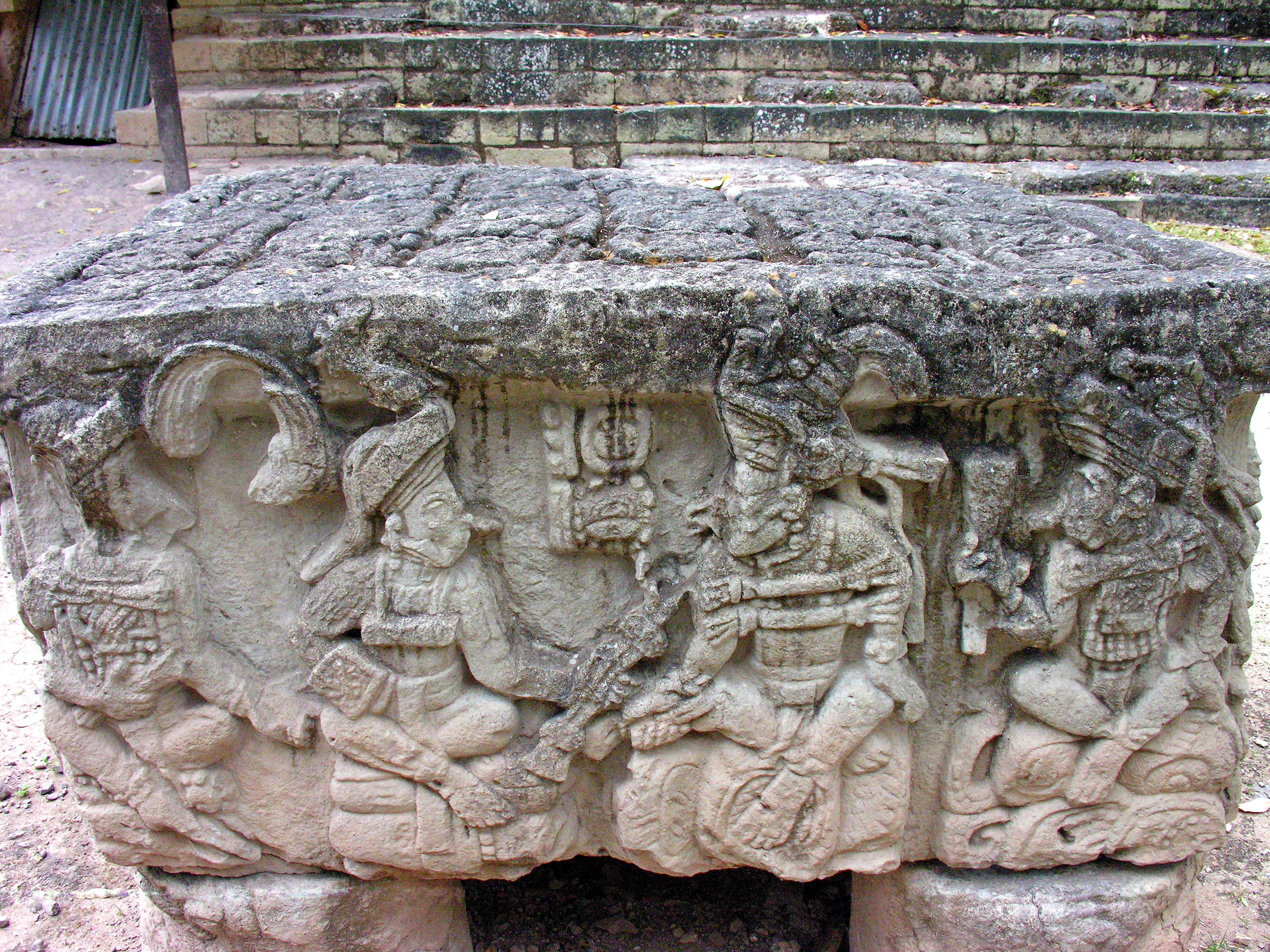 Alter Q, erected by King Yax Pac in 776 A.D. The 16 rulers of Copan, beginning with Yax Kuk Mo in 426 A.D., is portrayed by a full length portrait, each in chronological order. Each king is seated on a version of his particular name glyph. The climax of the sequence, and the main propaganda purpose of altar Q, features Yax Kuk Mo handing over insignia of reign to Yax Pac.